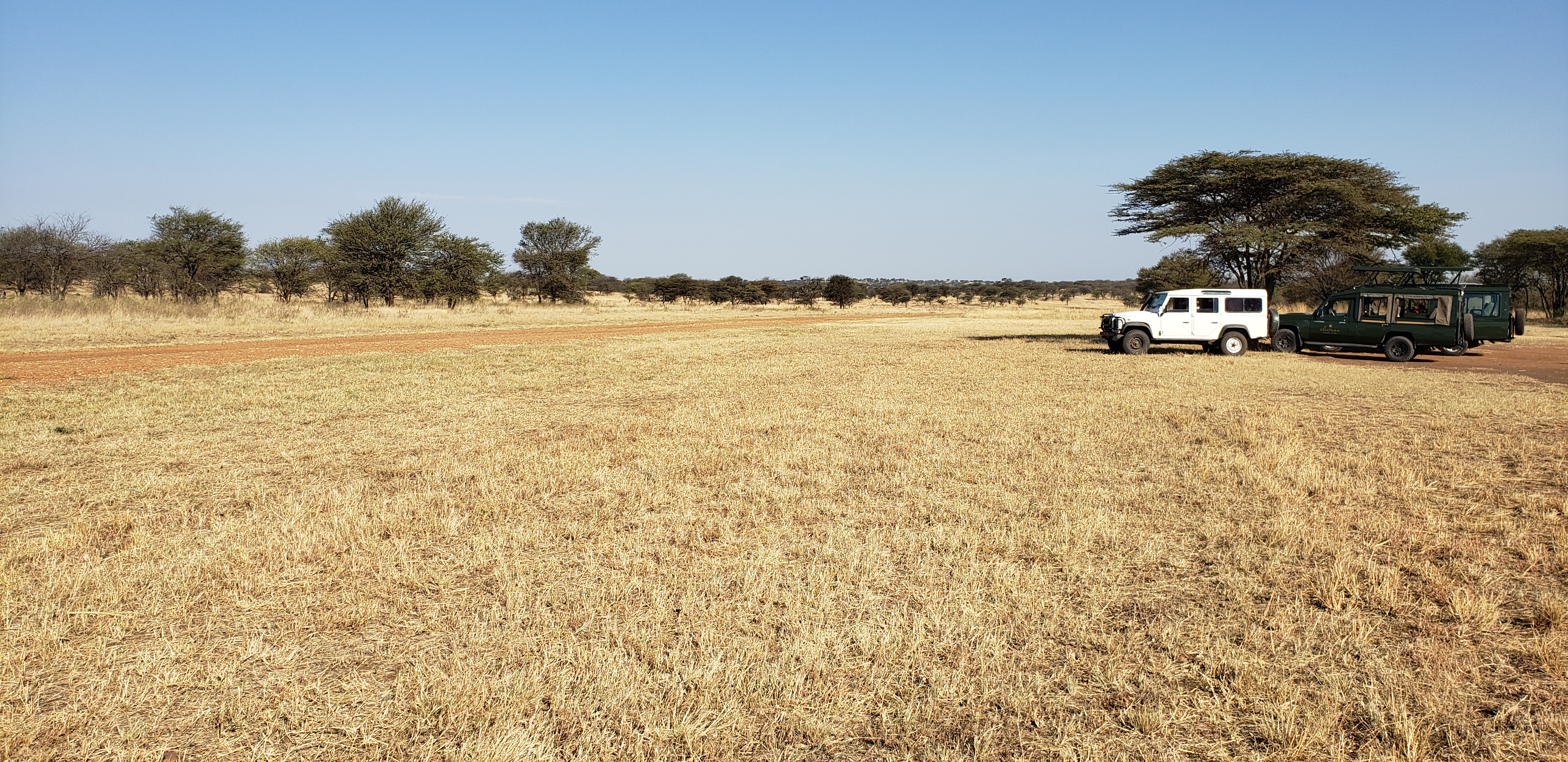 Lobo Airstrip - Serengeti National Park